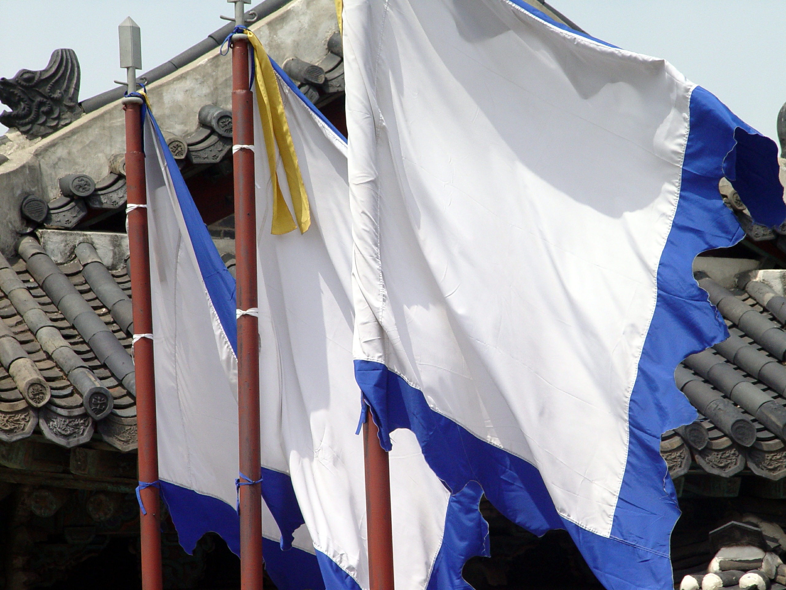 Flags on Hwaseong Fortress, Suwon, South Korea